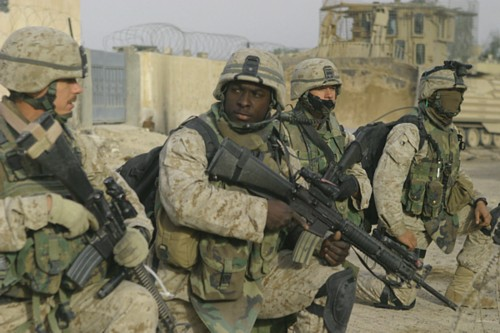 Fallujah, Iraq - U.S. Marines prepare to step off on a patrol through the city of Fallujah, Iraq, to clear the city of insurgent activity and weapons caches as part of Operation al Fajr (New Dawn) on Nov. 26, 2004. The Marines are (from left to right) Platoon Sergeant Staff Sgt. Eric Brown, Machine Gun Section Leader Sgt. Aubrey McDade, Radio Operator Cpl. Steven Archibald, and Combat Engineer Lance Cpl. Robert Coburn. All were assigned to 1st Battalion, 8th Marine Regiment, 1st Marine Division conducting security and stabilization operations in the Al Anbar Province of Iraq. This photograph is considered public domain and has been cleared for release.